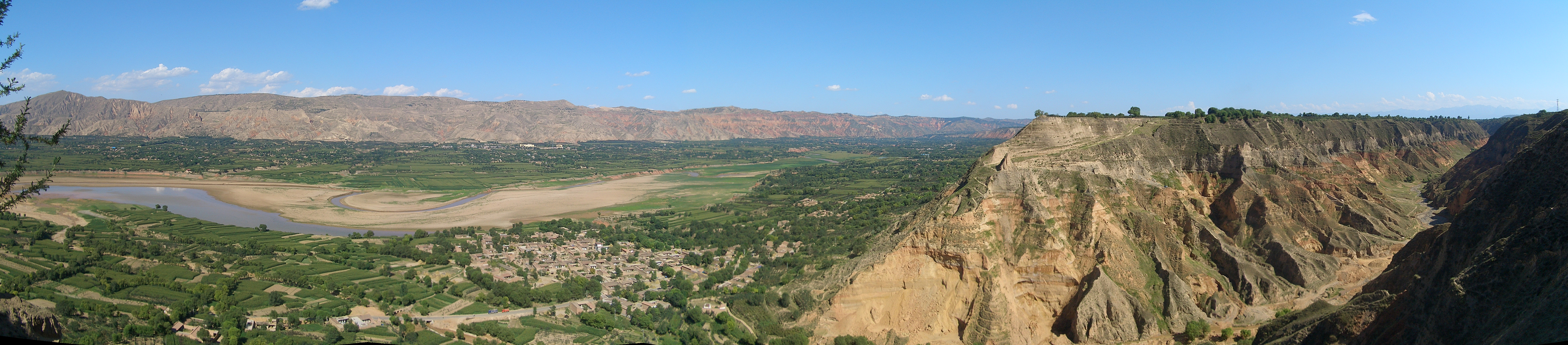 Panorama of the lower Daxia River valley, seen from the edge of the loess plateau in NE Linxia County, facing E, S, and SE. On the right, one can see part of the plateau and a canyon cutting thru it. The near side of the river is in Linxia County (Hexi Township), the far side, in Dongxiang County (Hetan Town). Five photos have been stitched with Hugin, using cylindrical projection.